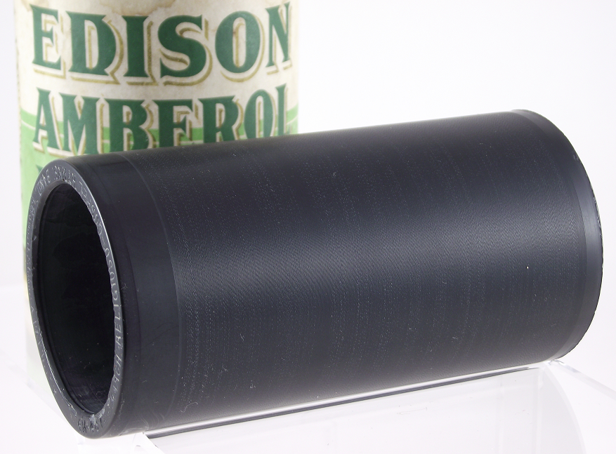 Edison's "Amberol" cylinder record